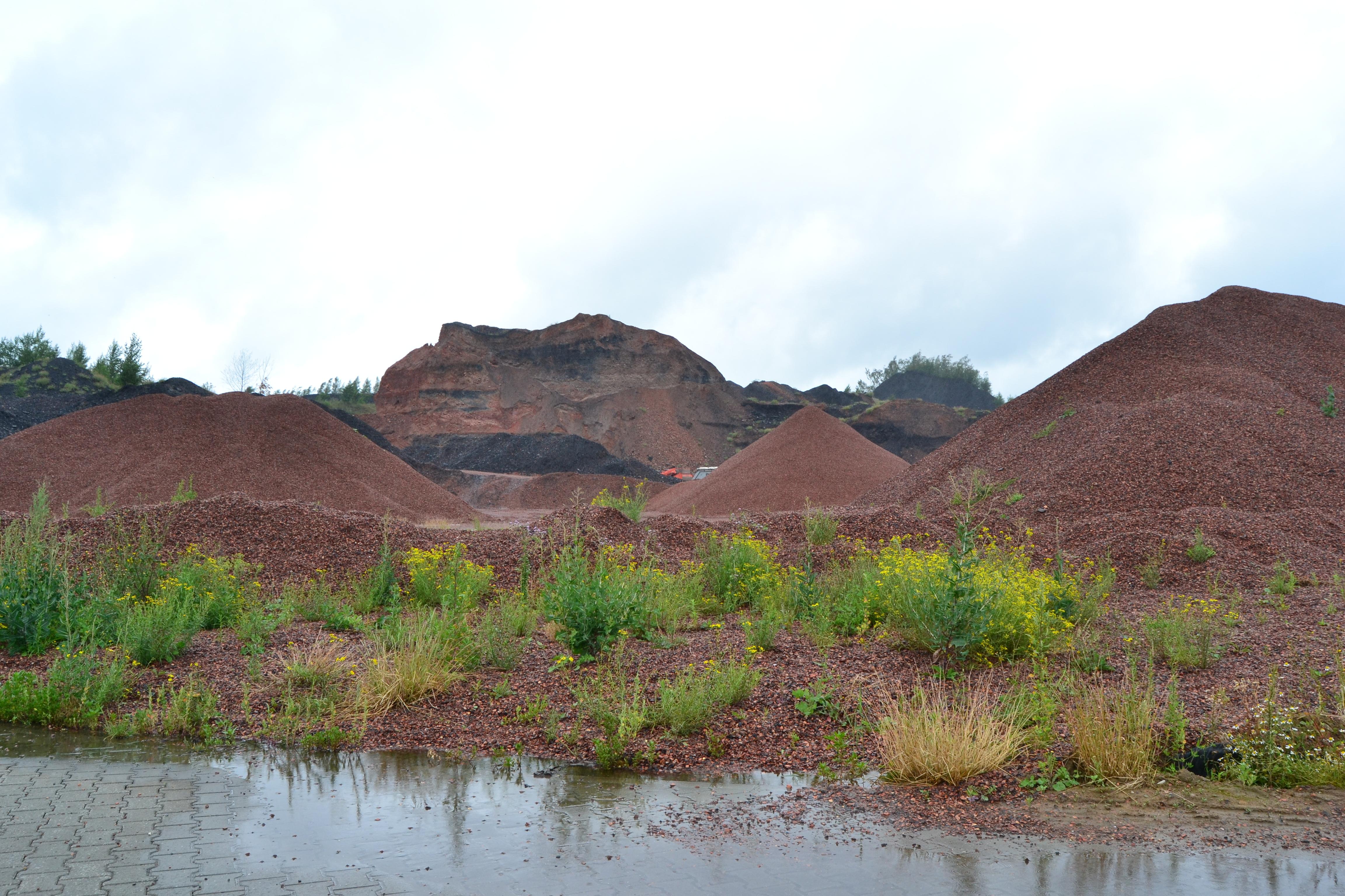 Ancient pit of the Bonne Fortune coal mine in Saint-Nicolas, Liège, Belgium